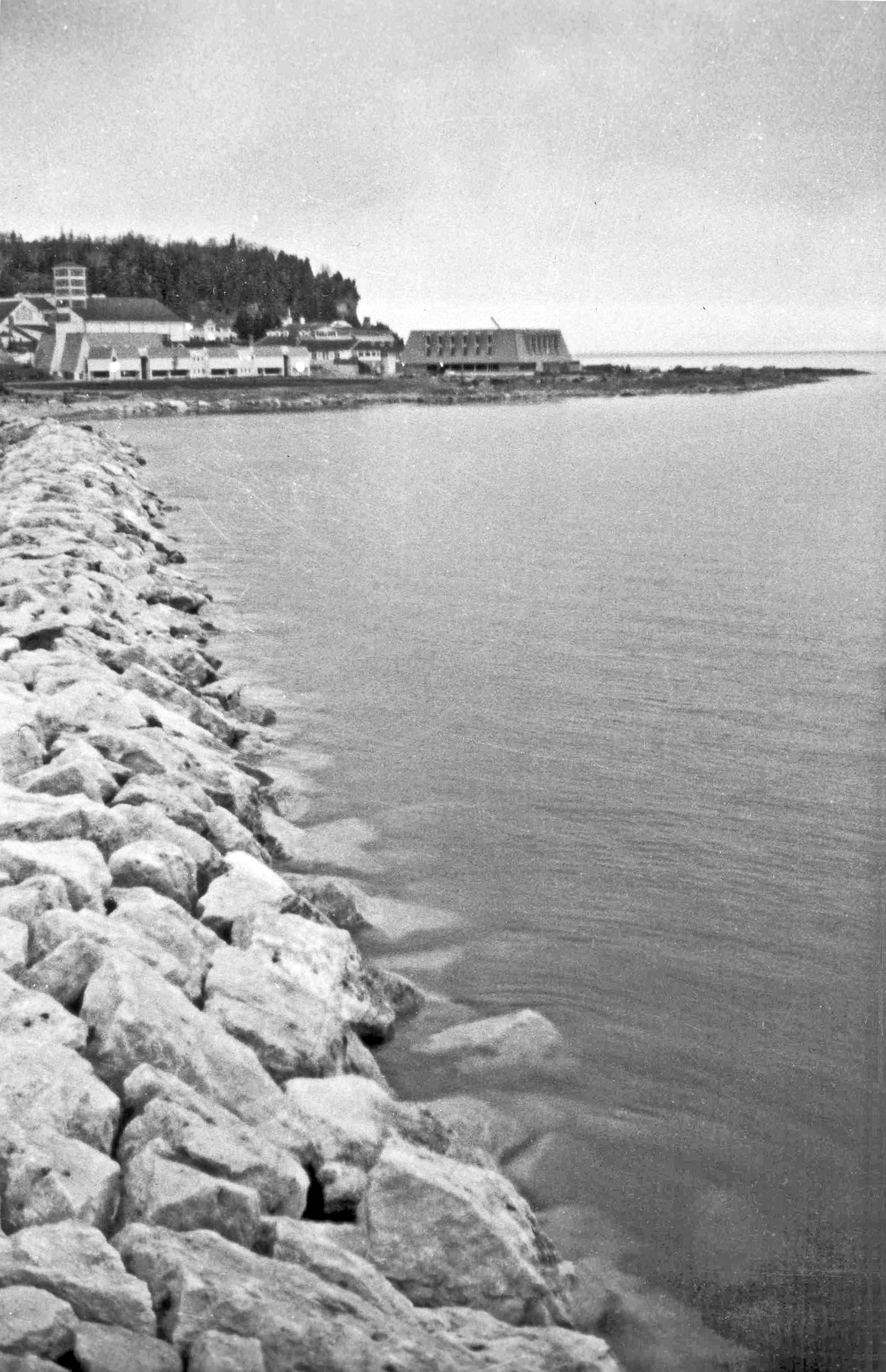 This jetty is the western boundary of Mission Point. It has demarcated the Point for over a century. Looking eastward at sunrise, this 1969 view sees across the Mackinac College campus, sunlight shining by the Peter Howard Memorial Library, and glinting off windows of the Clark Center. Robinson’s Folly, which is the eastern boundary of Mission Point, is in the background.